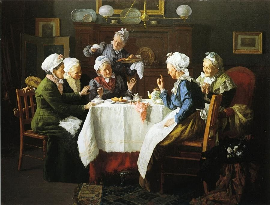 Tea Time